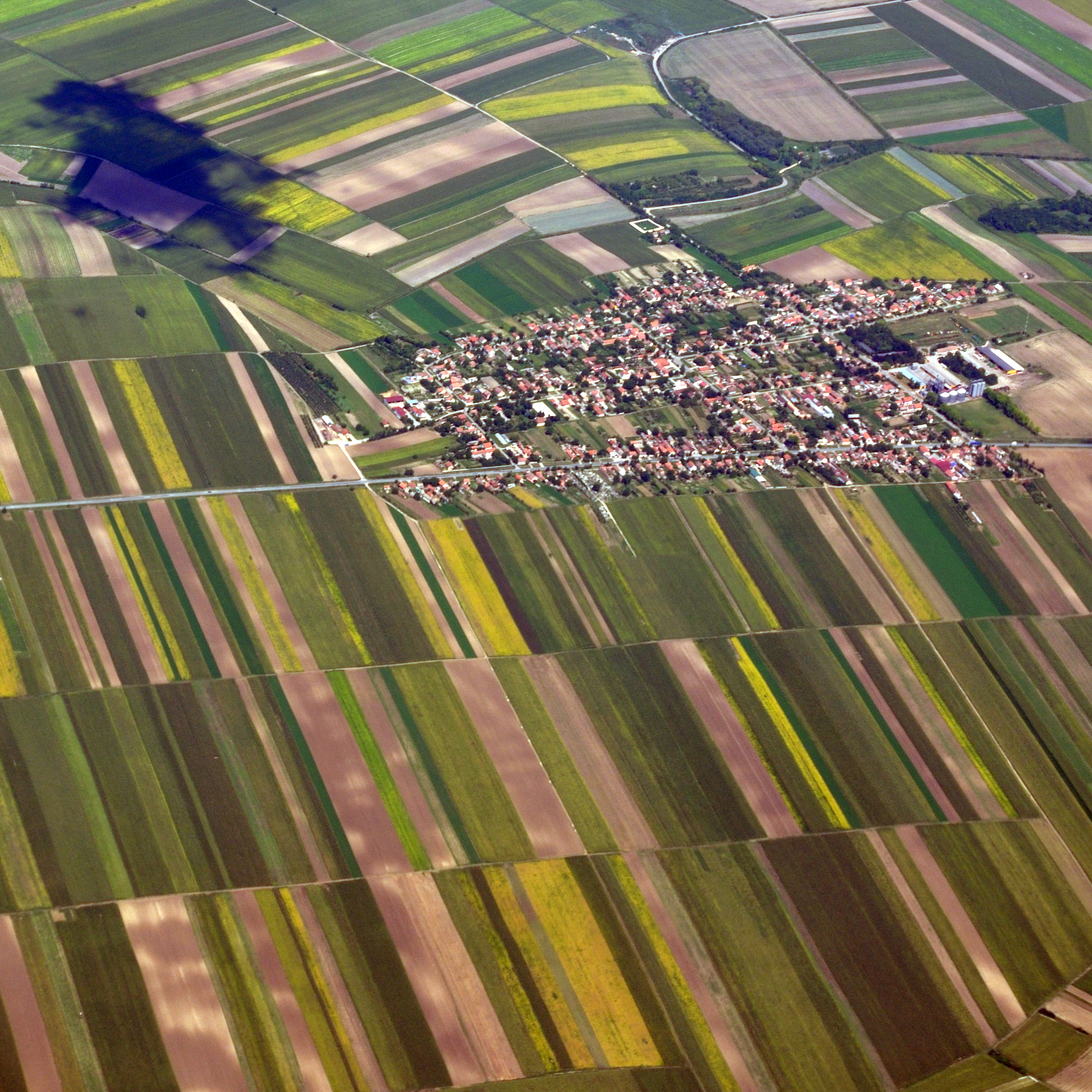 Serbia, aerial photograph after take-off in Belgrade.